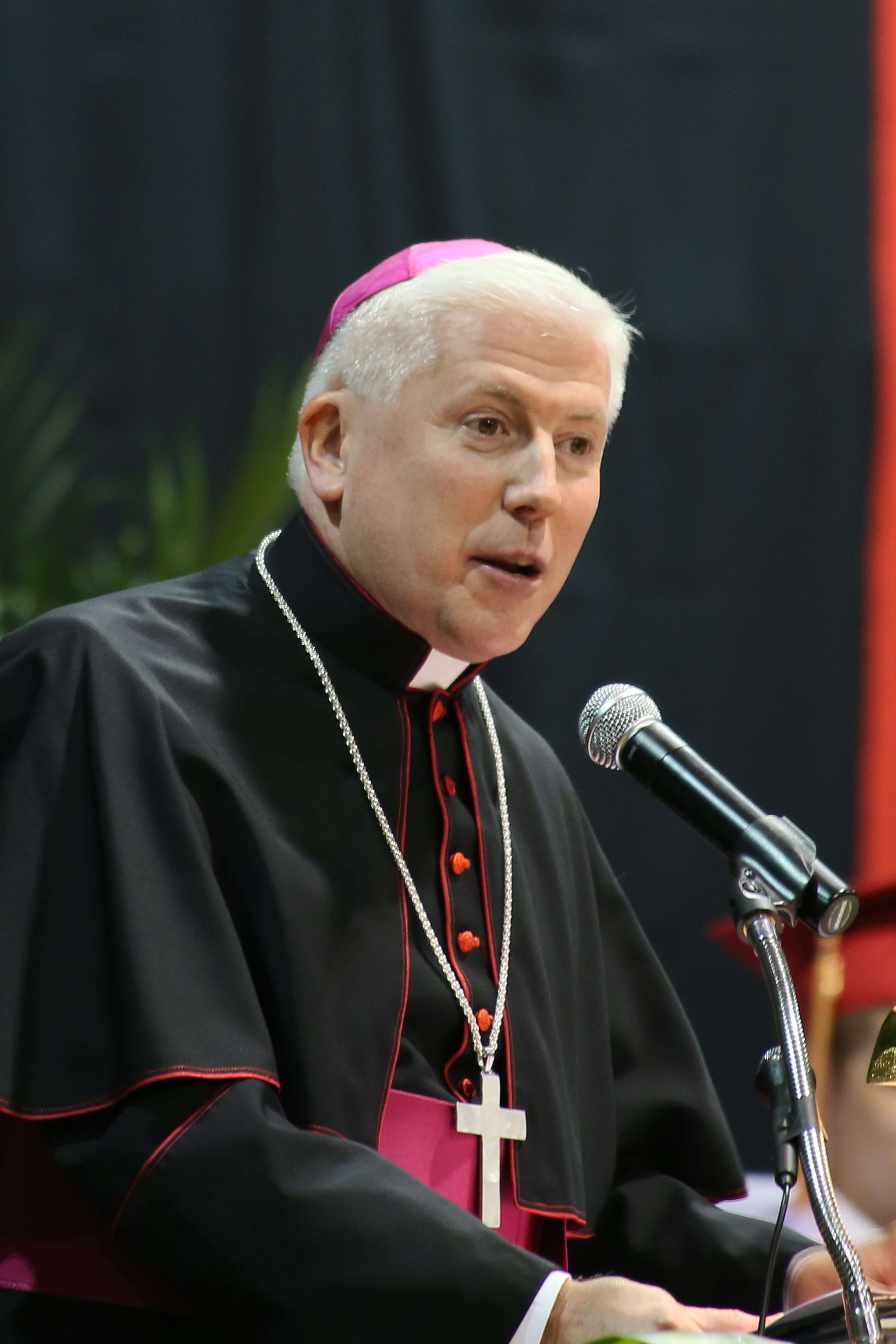 The Most Reverend Daniel E. Thomas addressing Graduation 2013 at Archbishop John Carroll High School Radnor